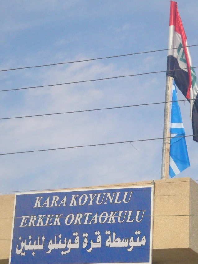 Karakoyunlu Boys Secondary School, in Iraq.